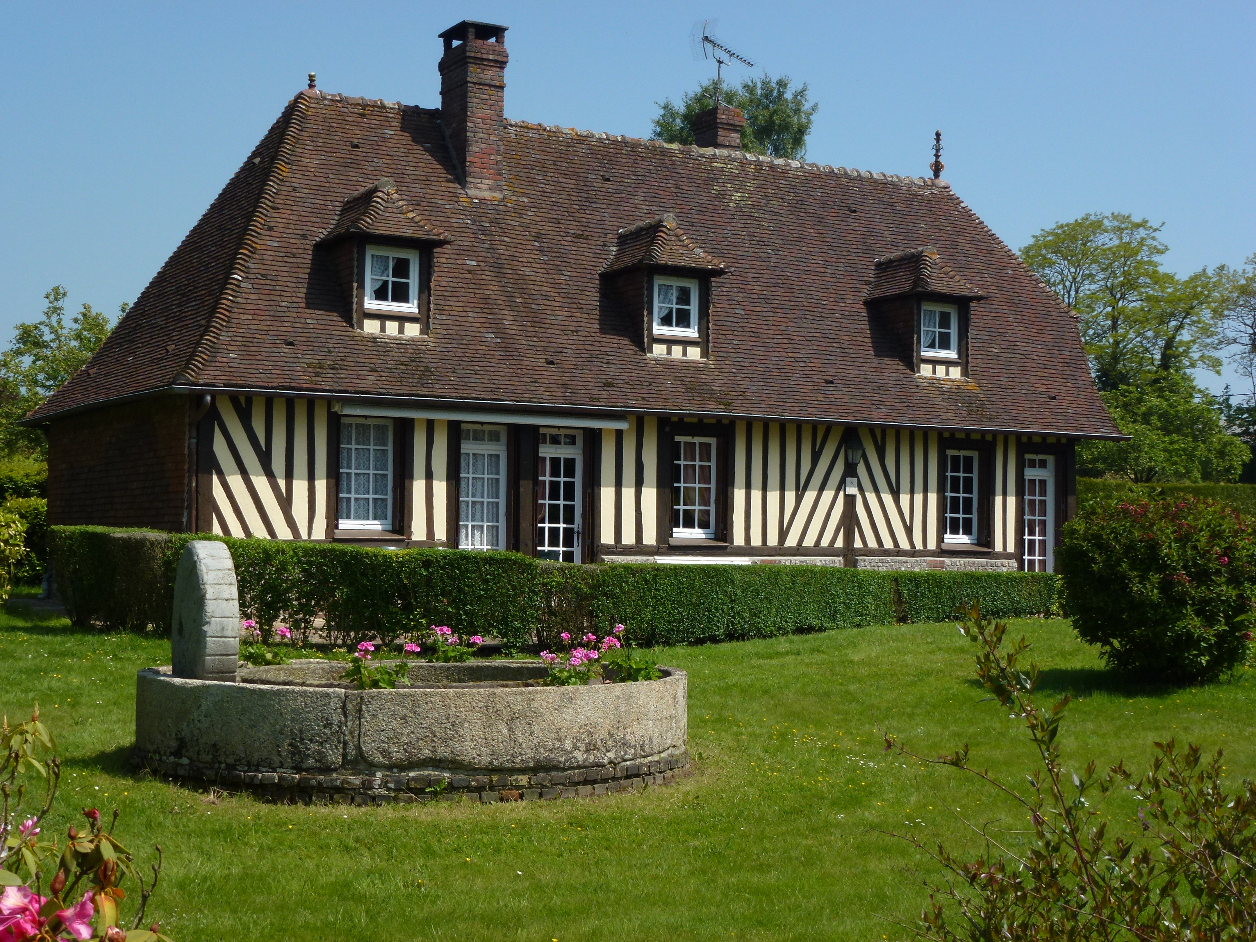 Barville (Eure, Fr) ferme avec pressoir